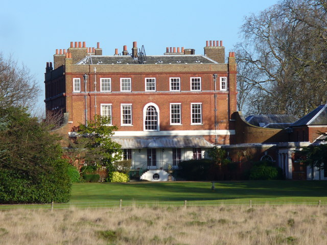 Bushy House Grand Georgian mansion on the northern edge of Bushy Park.